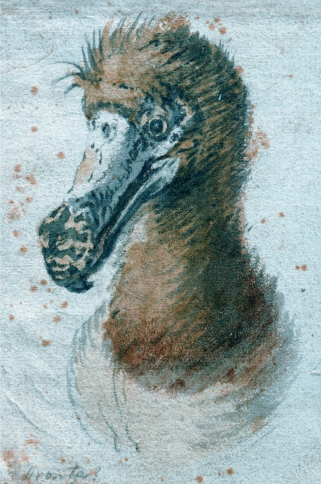 Painting of a dodo head by Cornelis Saftleven (1607-1681) from 1638, which may be one of the last illustrations made of a live dodo. It is housed at Boijmans Museum in Rotterdam.